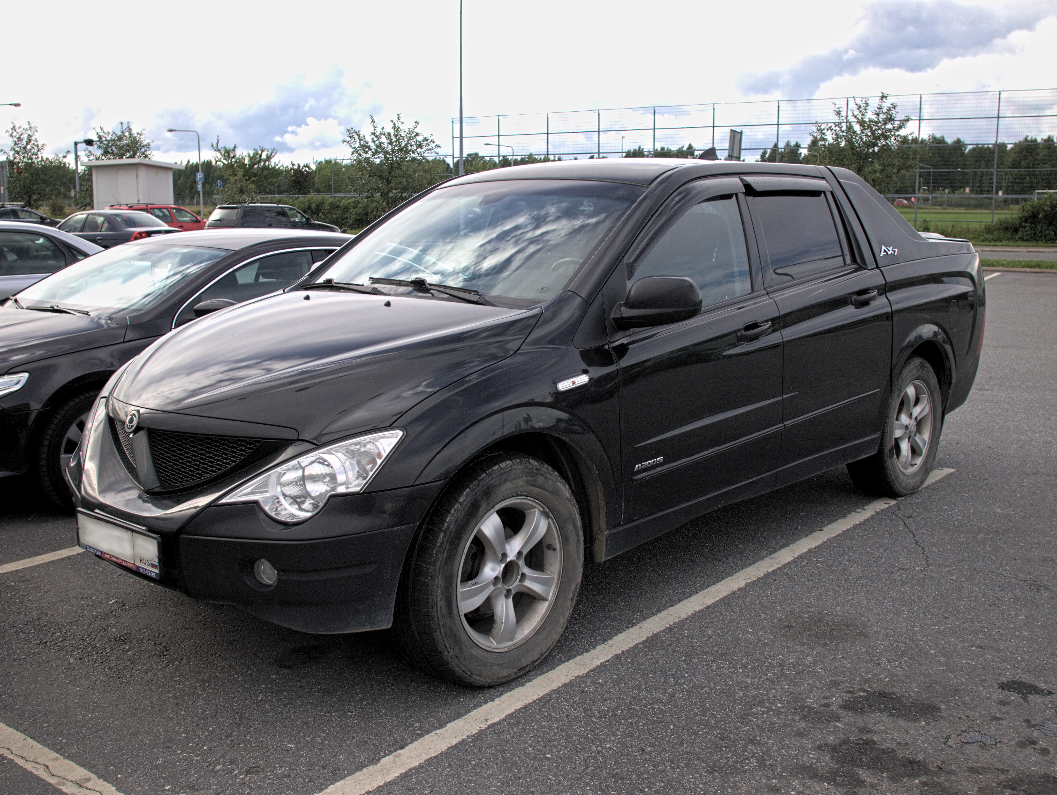 Black SsangYong Actyon Sports AX7 photographed in Lappeenranta, Finland.